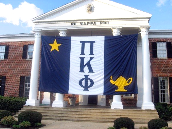 The Pi Kappa Phi chapter house at the University of Alabama (Omicron chapter).